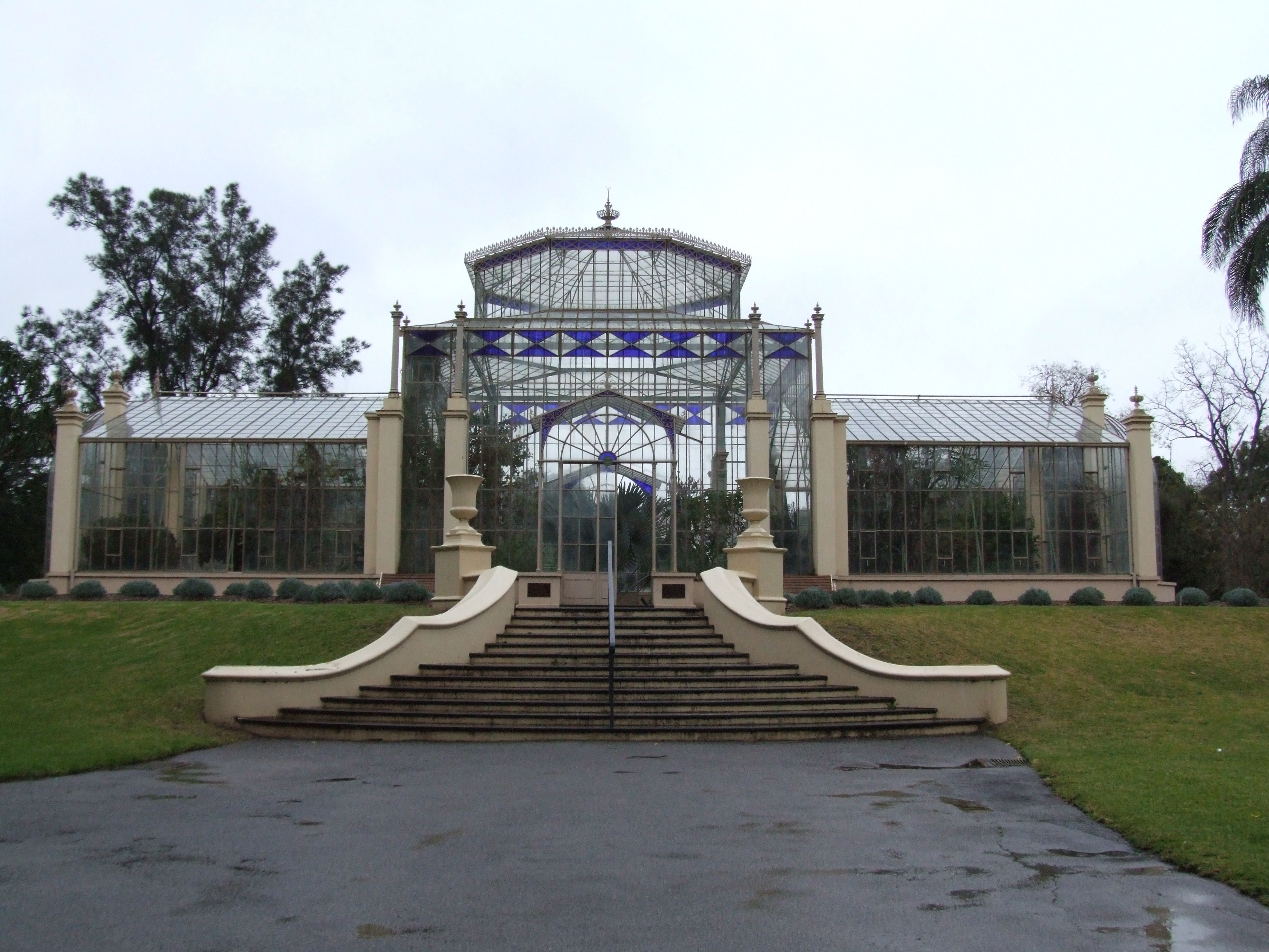 Image title: Glasshouse Adelaide gardens Image from Public domain images website